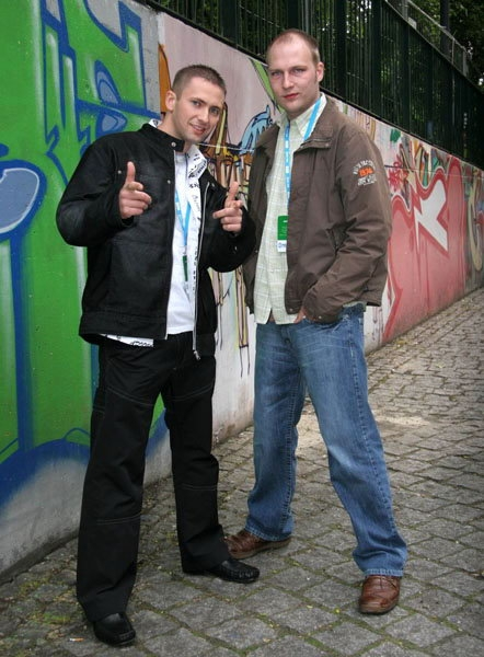 Photo of Verba